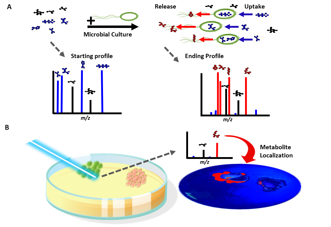 Example of exometabolomics experiments from liquid culture (A) and from an agar plate (B)